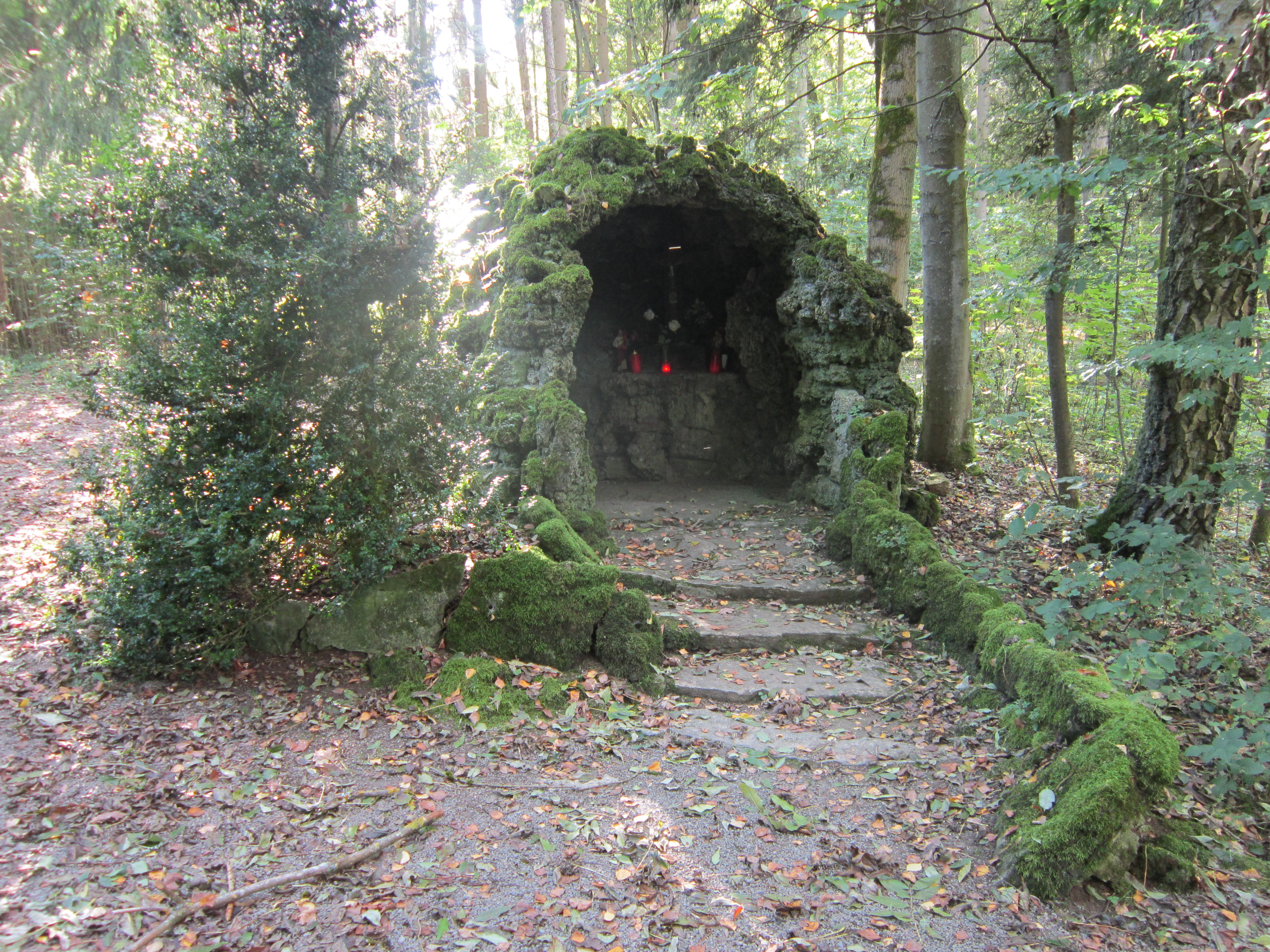 Mount of olives grotto at the "Terzenbrunn" Chapel in Arnshausen, a quarter of the German spa town of Bad Kissingen in Lower Franconia (Bavaria).